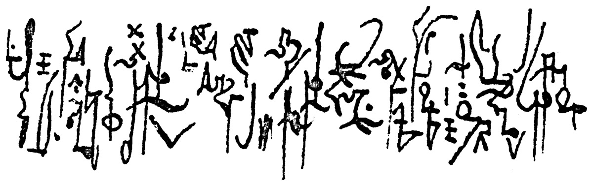 Cryptography of Géza Gárdonyi (1863-1922) Hungarian writer